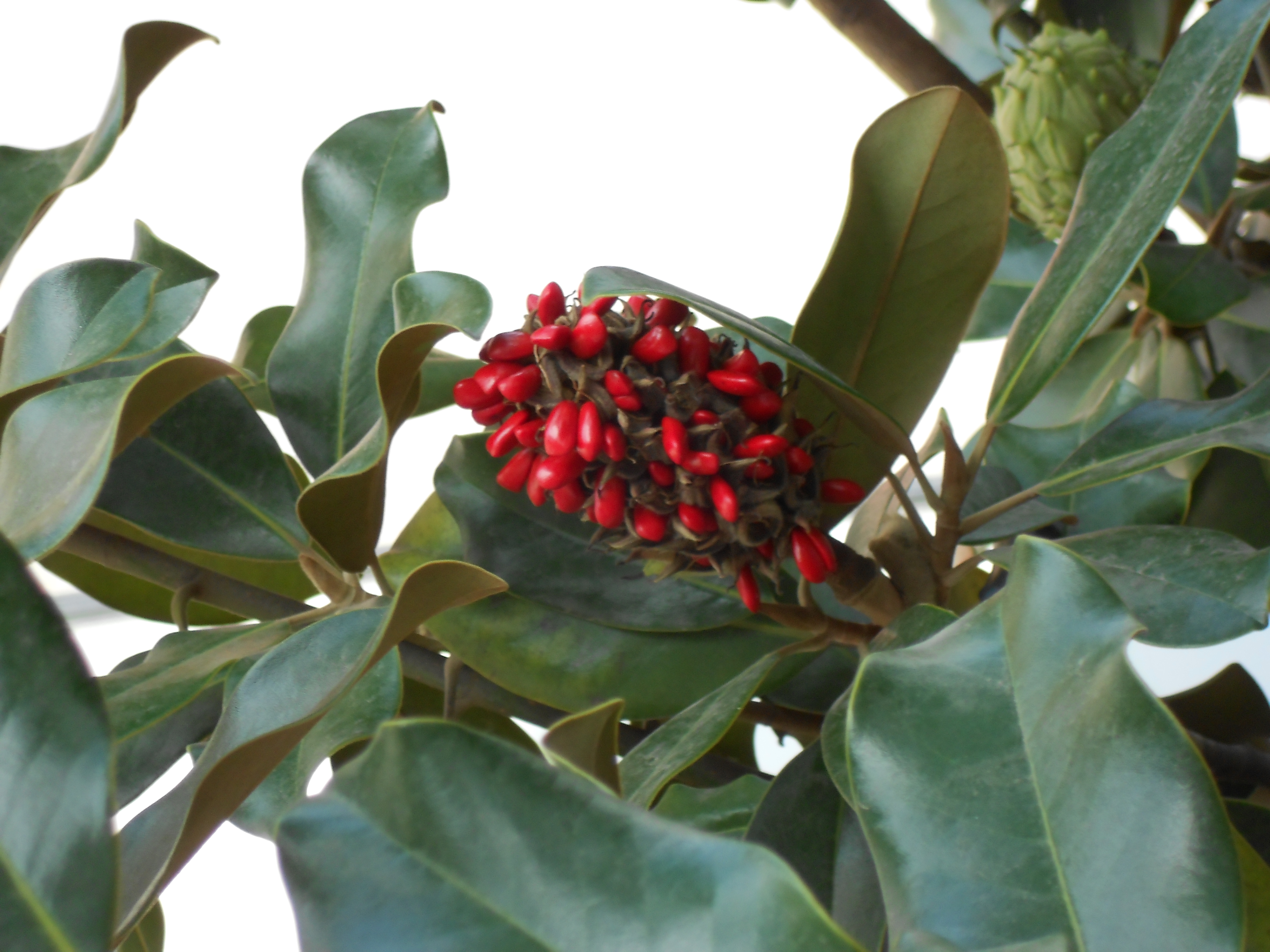 Photograph of Magnolia grandiflora seeds and fruit taken in summer in Northern Argentina (South America)